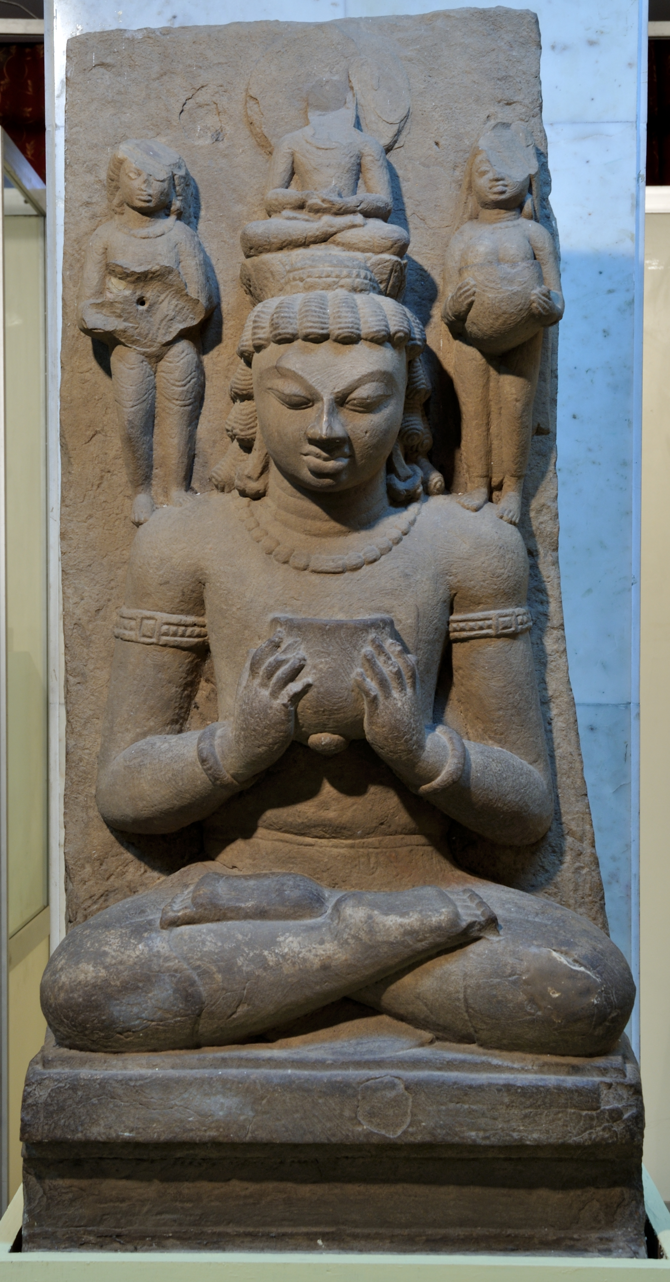 This artefact was exhibited as 'Indian Buddhist Art' exhibition from 20 December to 25 December, 2012, at the Asutosh Birth Centenary Hall, Indian Museum, Kolkata.